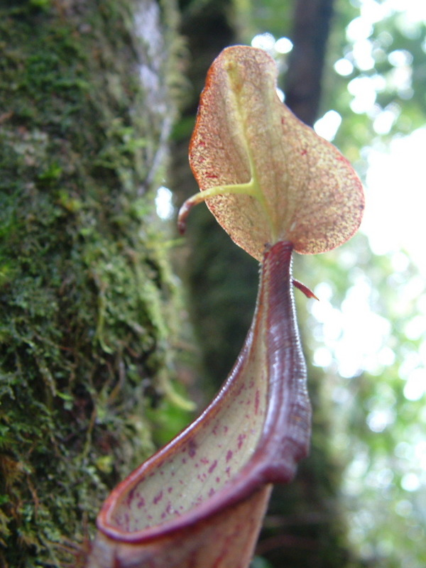 Nepenthes lingulata growing at ~1,600 m asl